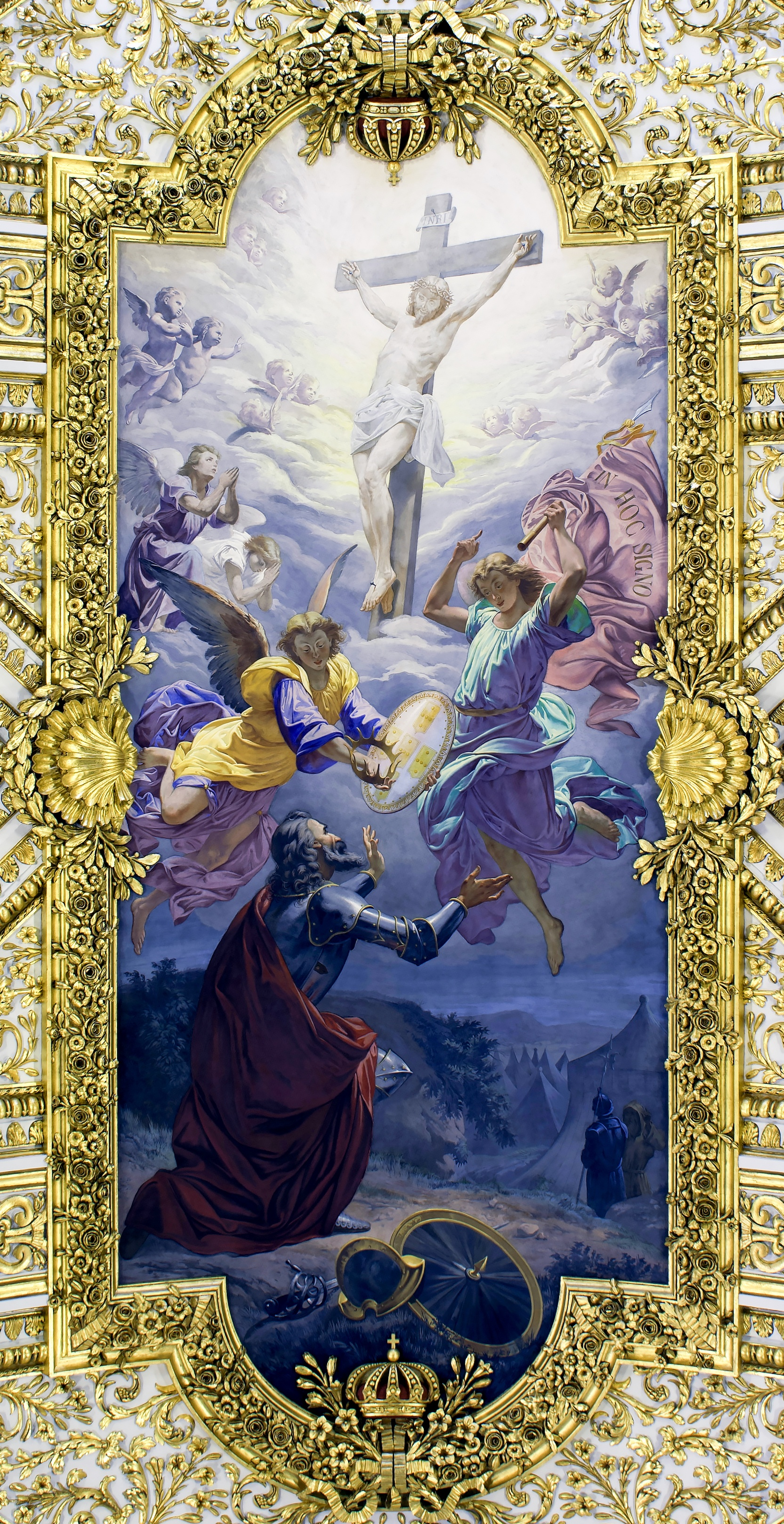 Ceiling of Sant'Antonio in Campo Marzio